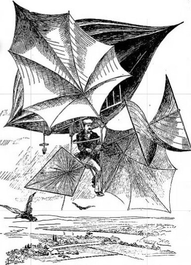 Skycycle invention by Carl Edgar Myers being displayed and flown over New York City in 1895